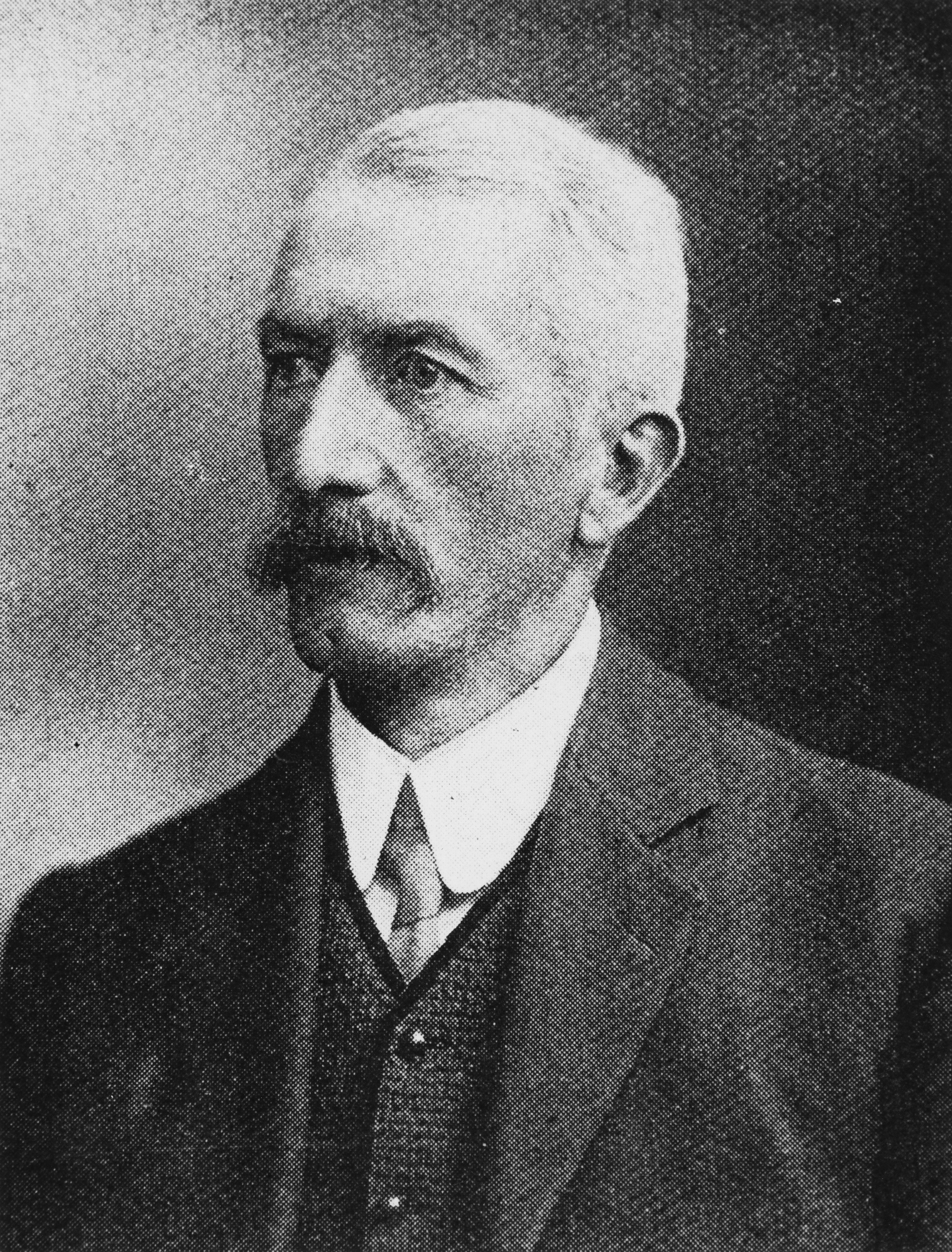 Head and shoulder portrait of Byard, originally from H. T. Burgess book "Cyclopedia of South Australia"